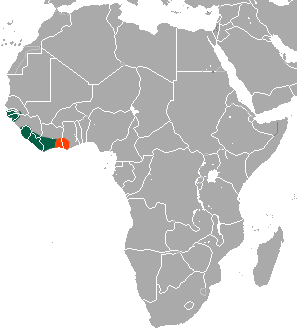 Western Red Colobus (Procolobus badius = Piliocolobus badius) range (green — extant, orange — possibly extinct)